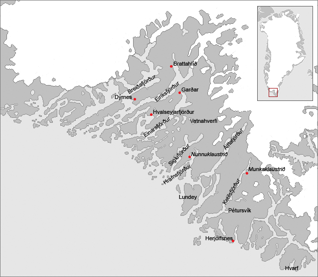 Map of the Eastern settlement of the Norse in medieval Greenland. The area is approximately the modern Municipality of Nanortalik. The known major farms and churches are identified on the map as some probable geographical names. The names are the modern Icelandic versions of the Norse names.